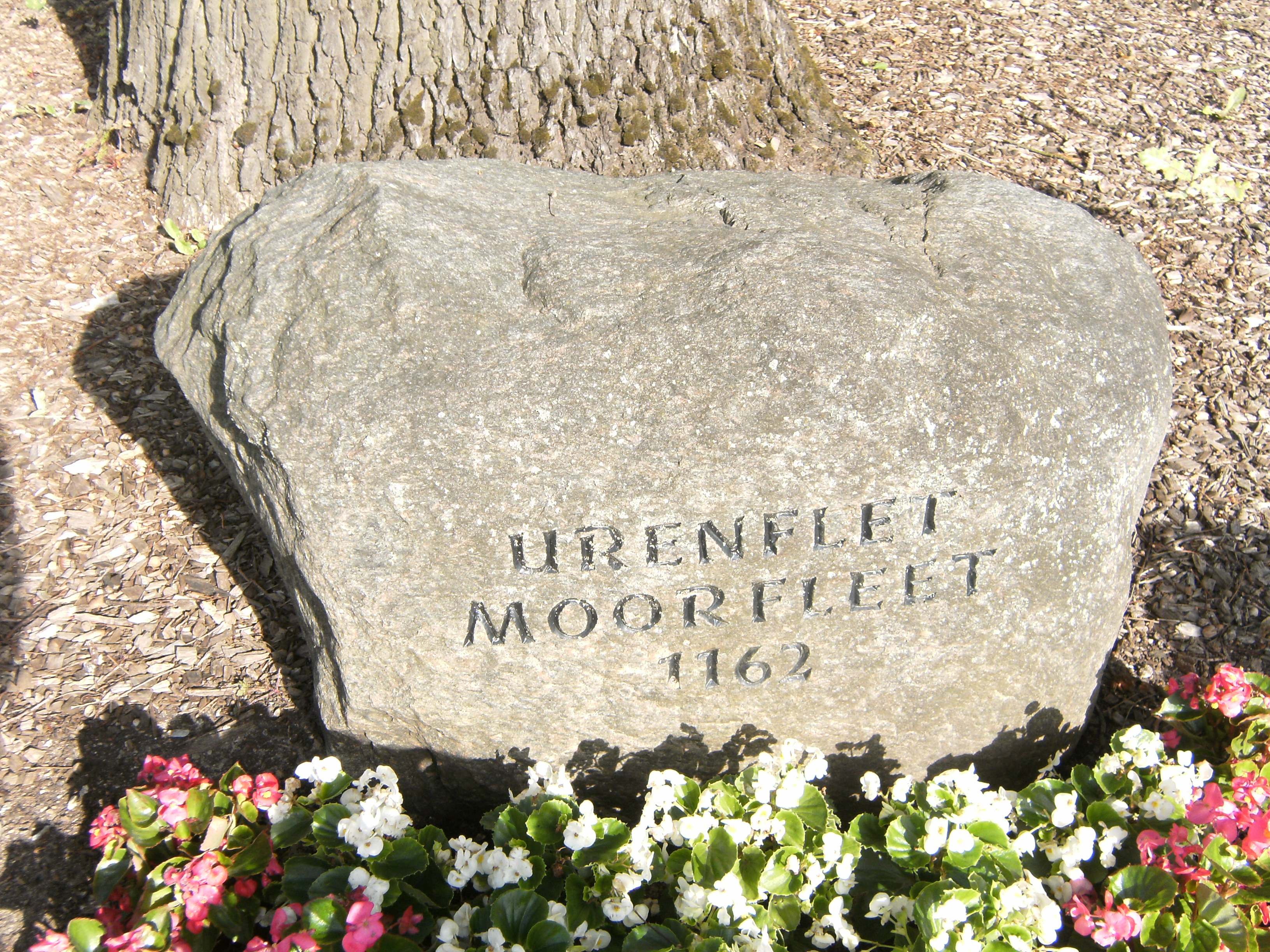 Hamburg-Moorfleet, Germany, Moorfleeter Kirchweg, memorial: Foundation of Hamburg-Moorfleet.